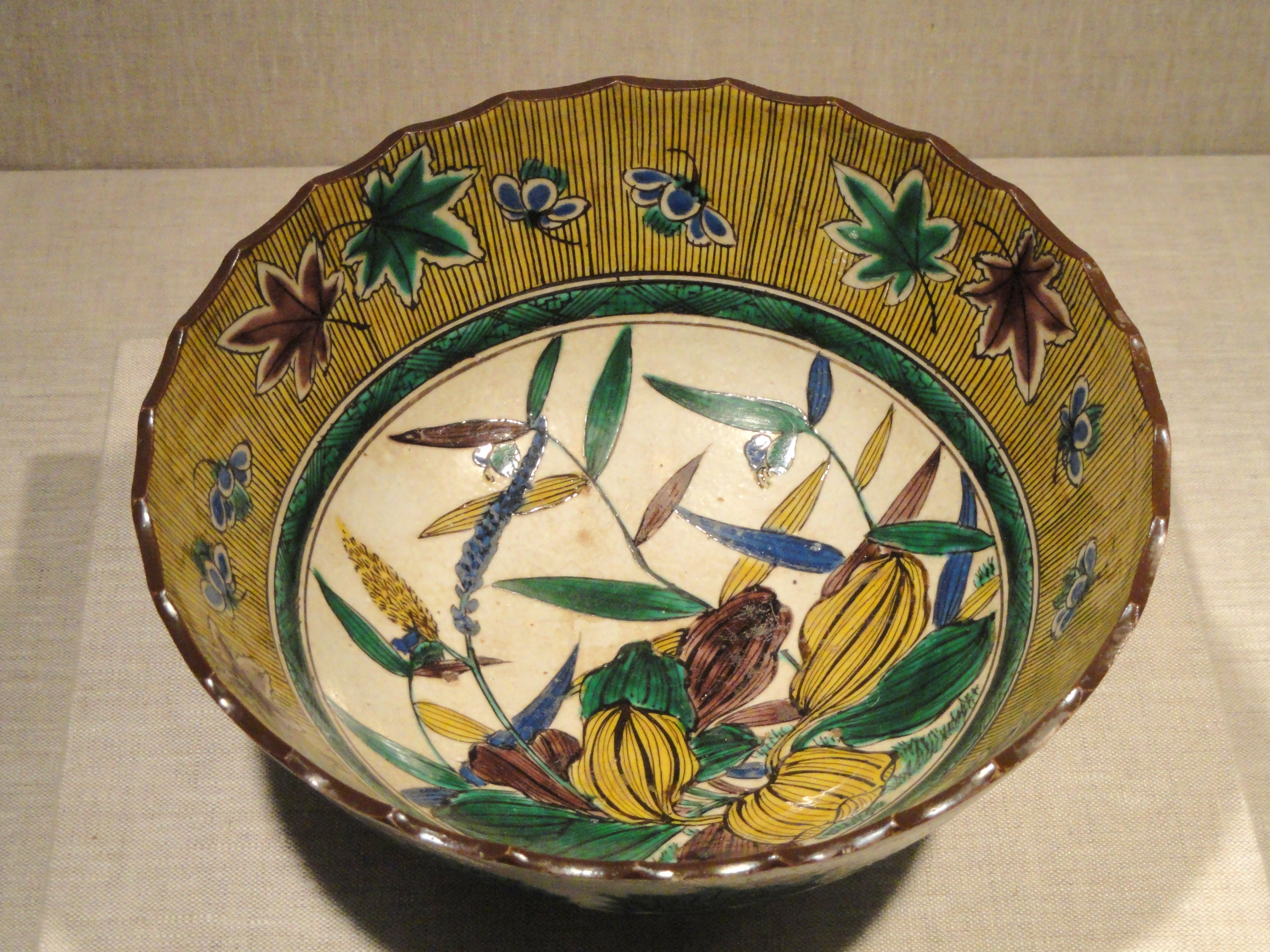 Exhibit in the Art Institute of Chicago, Chicago, Illinois, USA. This artwork is in the public domain because the artist died more than 70 years ago.